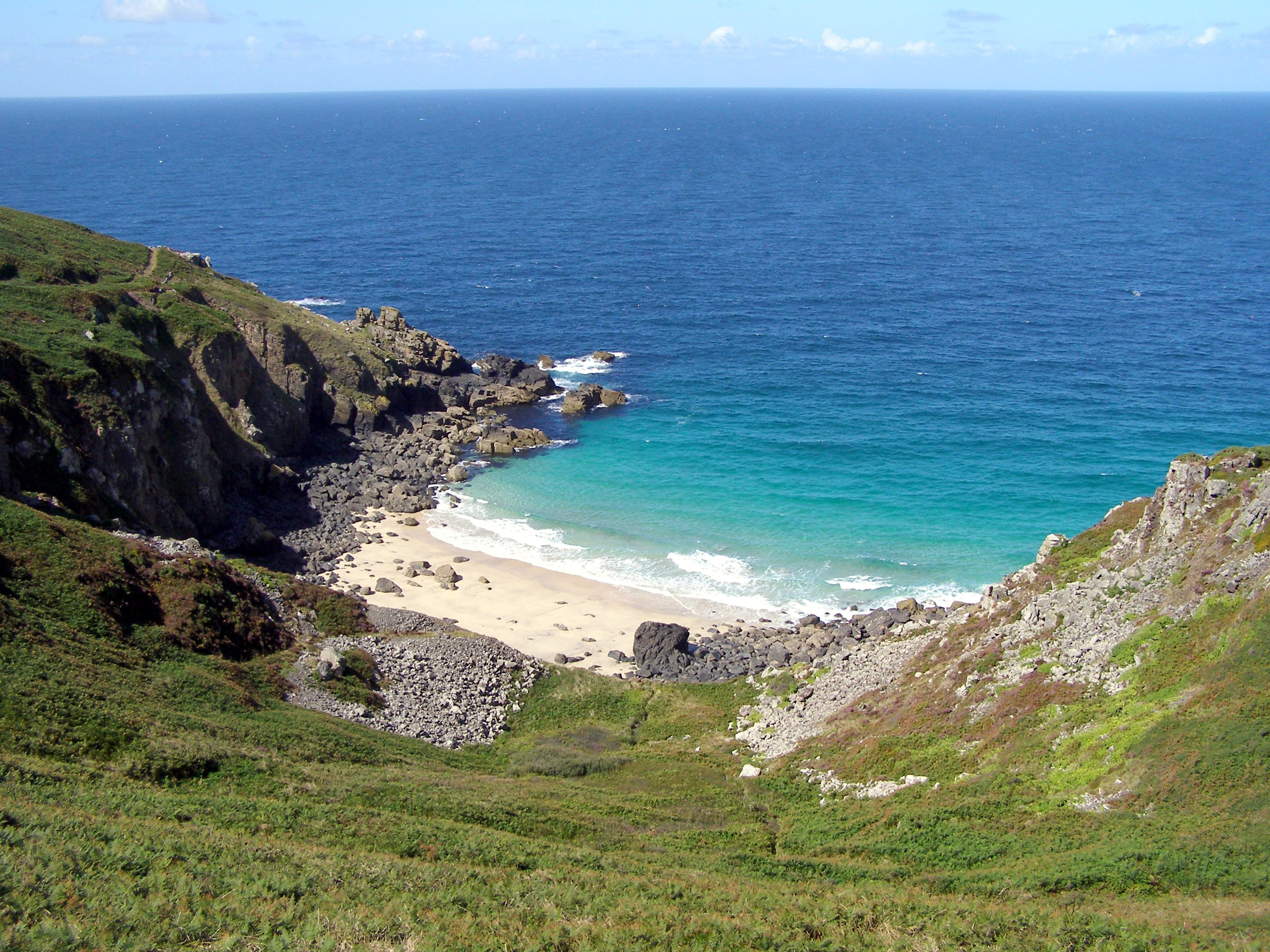 Veor Cove from the coast path on Carnelloe Cliff. Near Zennor, Cornwall, U.K.